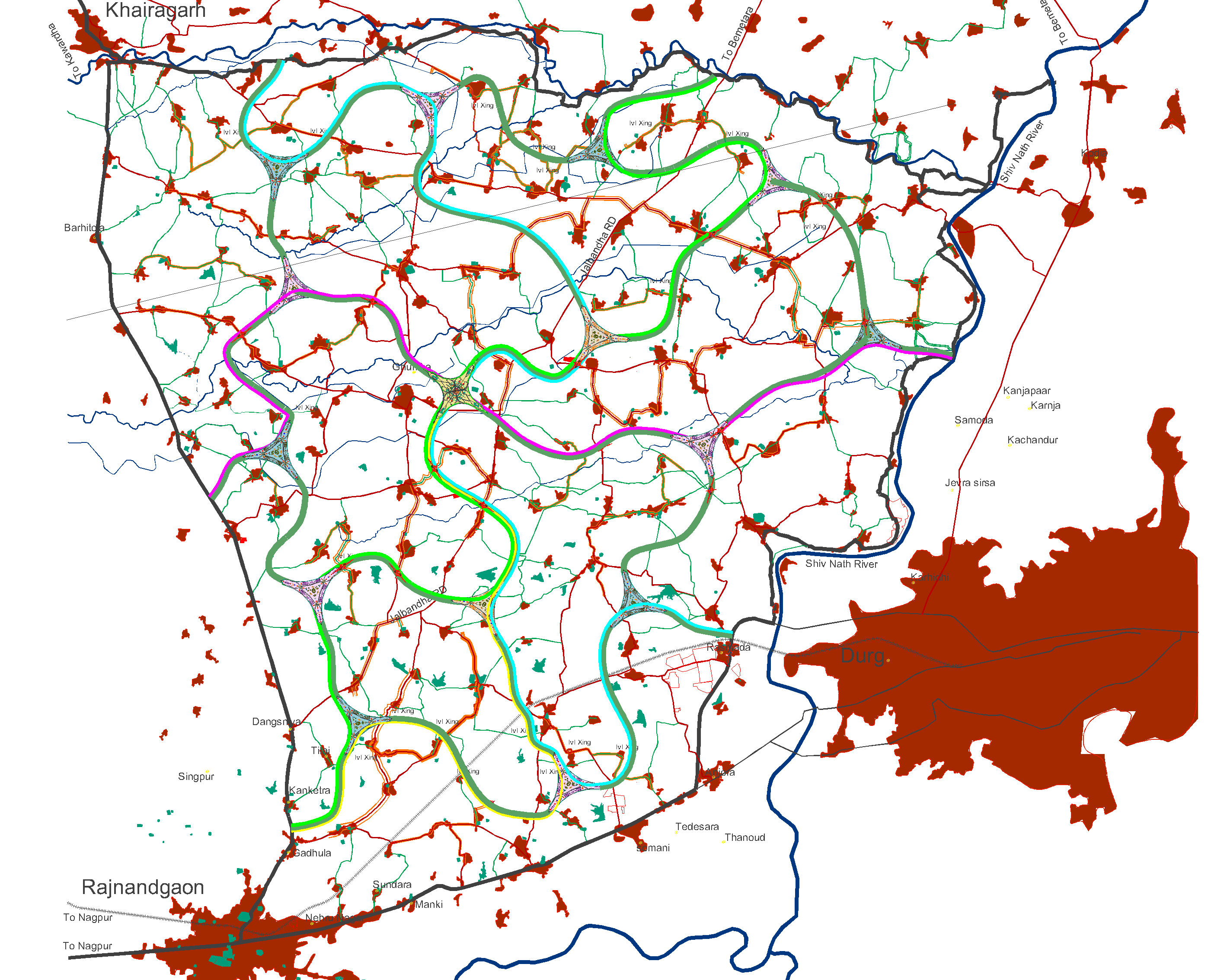 Ranjnandgaon, Chattisgarh, India